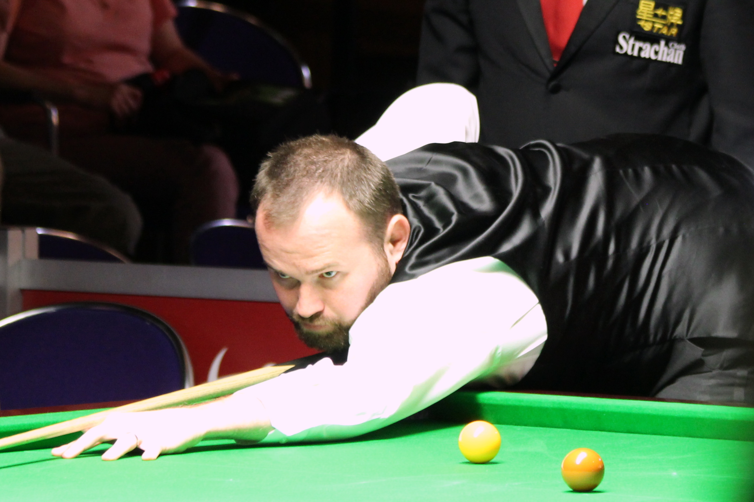 Mark Joyce beim Paul Hunter Classic 2016